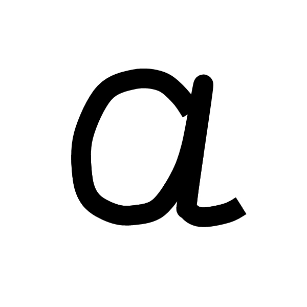 "a" less complex than @